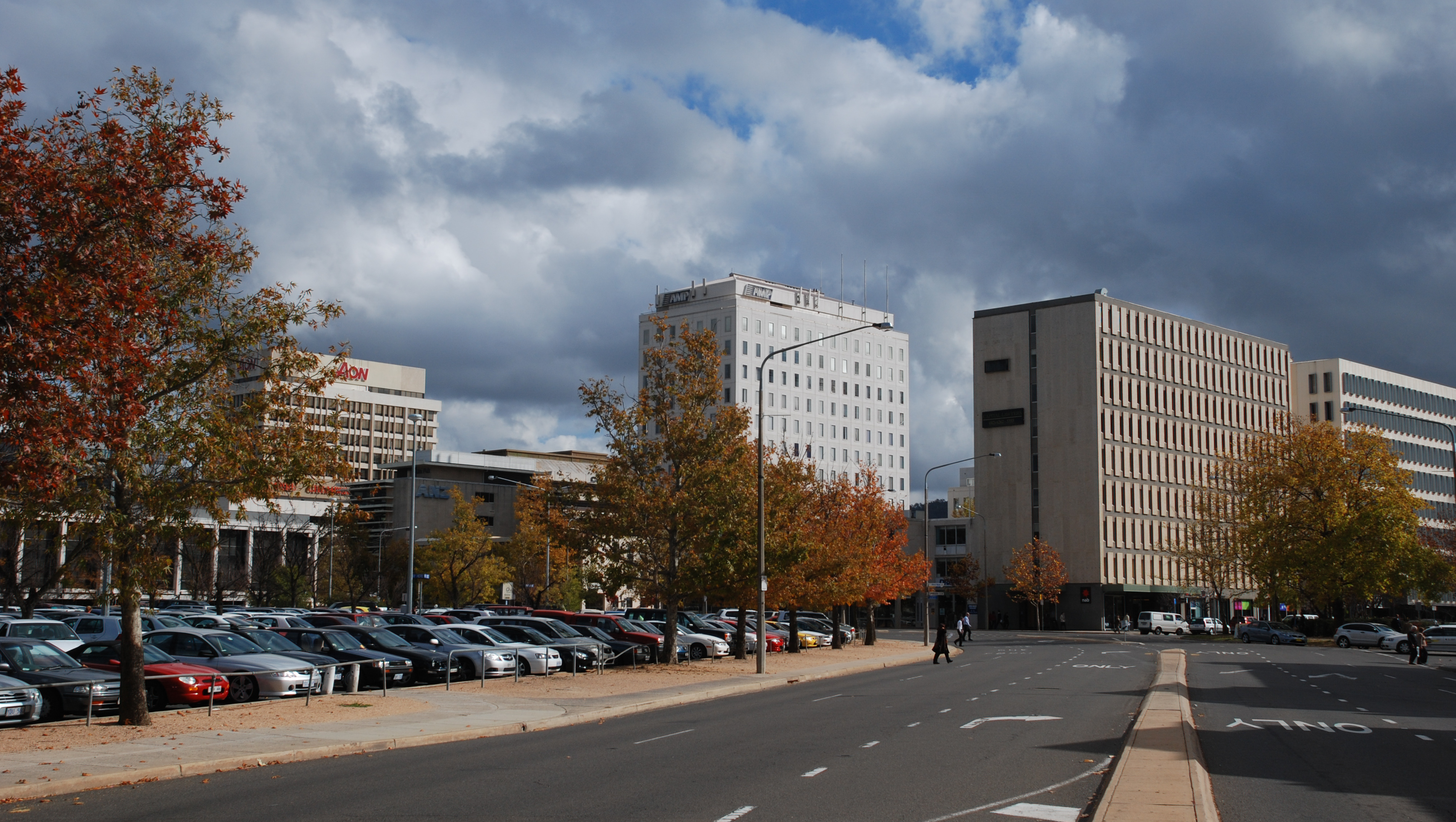 Civic, Canberra in 2009.